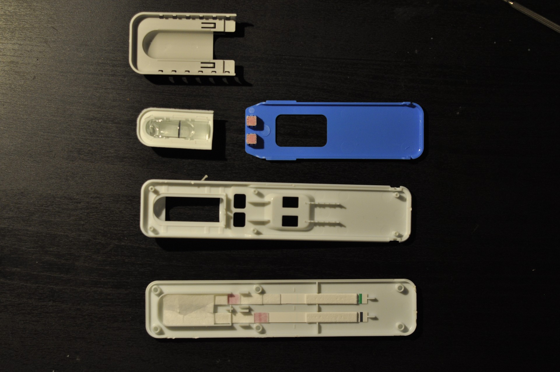 Drugwipe twin saliva drug test opened.